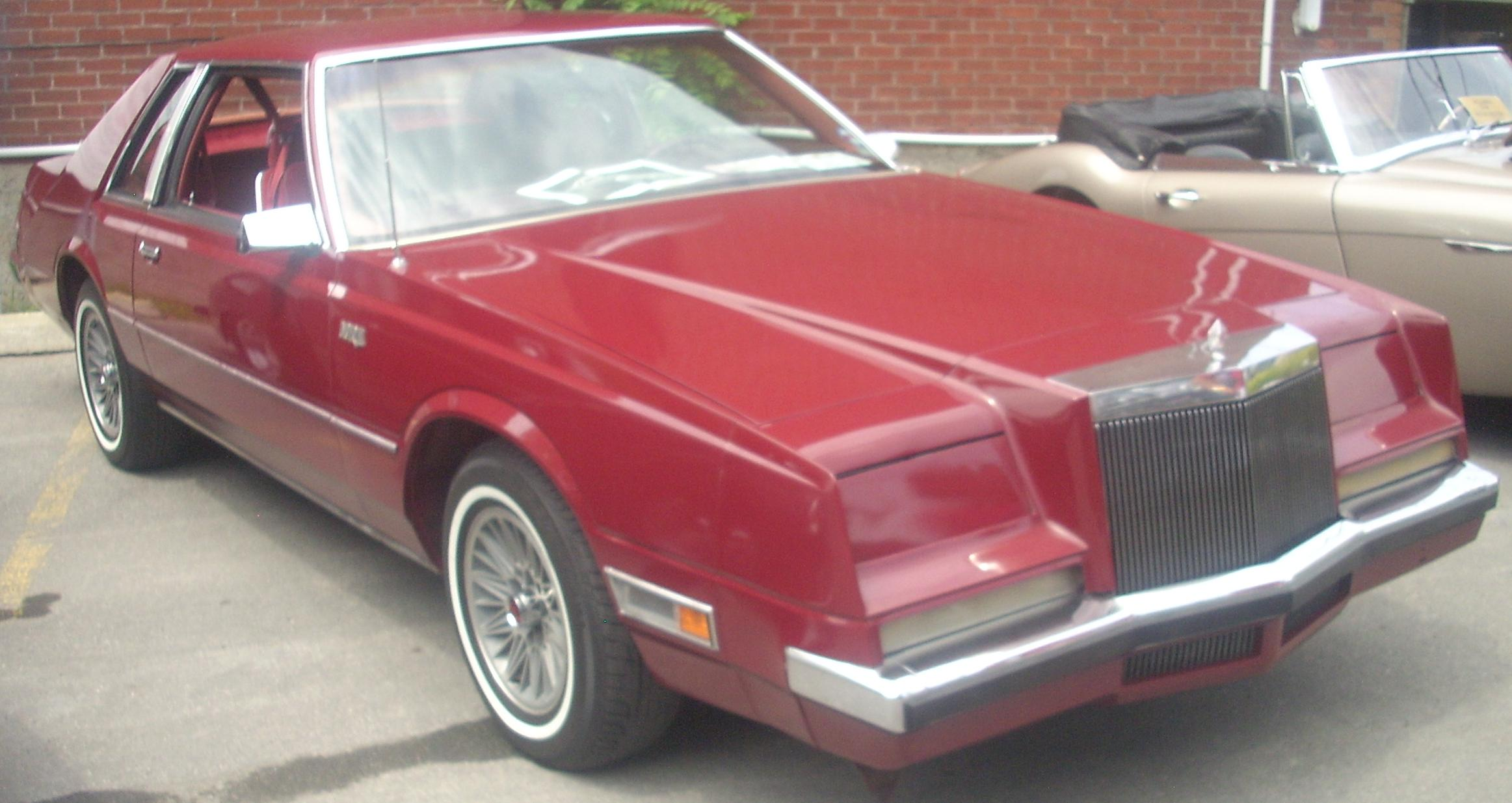 1981 Imperial photographed in Ste. Anne De Bellevue, Quebec, Canada at Cruisin' At The Boardwalk 2010.